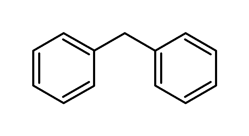 Skeletal formula of diphenylmethane.